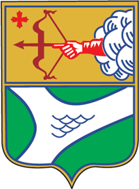 Kirovo-Chepetsk (Kirov oblast), coat of arms